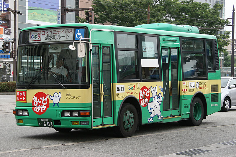 Toyama City Community Bus "Maidohaya" Shimizudho route (Mitsubishi Fuso Aero Midi MJ / MBM Body) in Toyama, Toyama, Japan